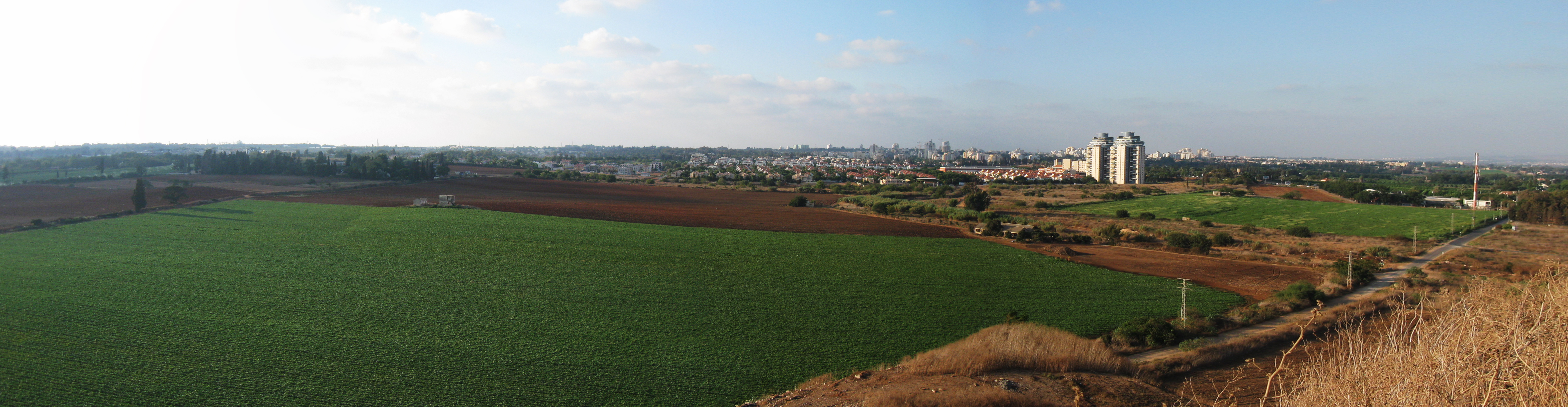 panoramic image of Hod Hasharon old dump Source